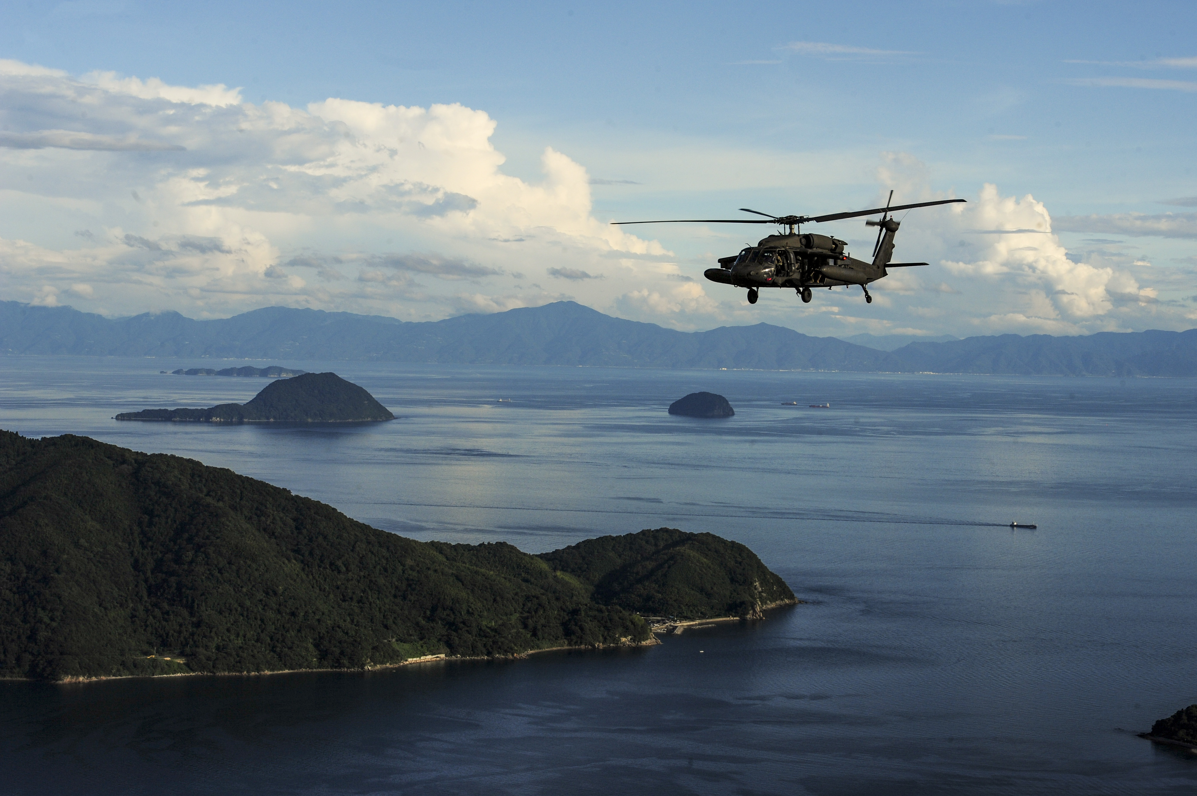 U.S. Army UH-60 Blackhawk flies in formation over Yamaguchi Bay, Japan during Orient Shield 2019, Sept. 9, 2019. OS 19 is a premier U.S. Army and Japan Ground Self-Defense Force bilateral field training exercise that is meant to increase interoperability by testing and refining multi-domain and cross-domain concepts. . (U.S. Army Photo by Staff Sgt. Jacob Kohrs, 20th PAD)